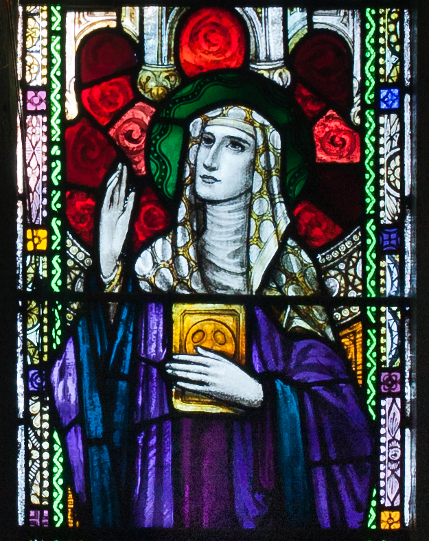 Detail of the east window of the north transept, depicting Íde of Killeedy.